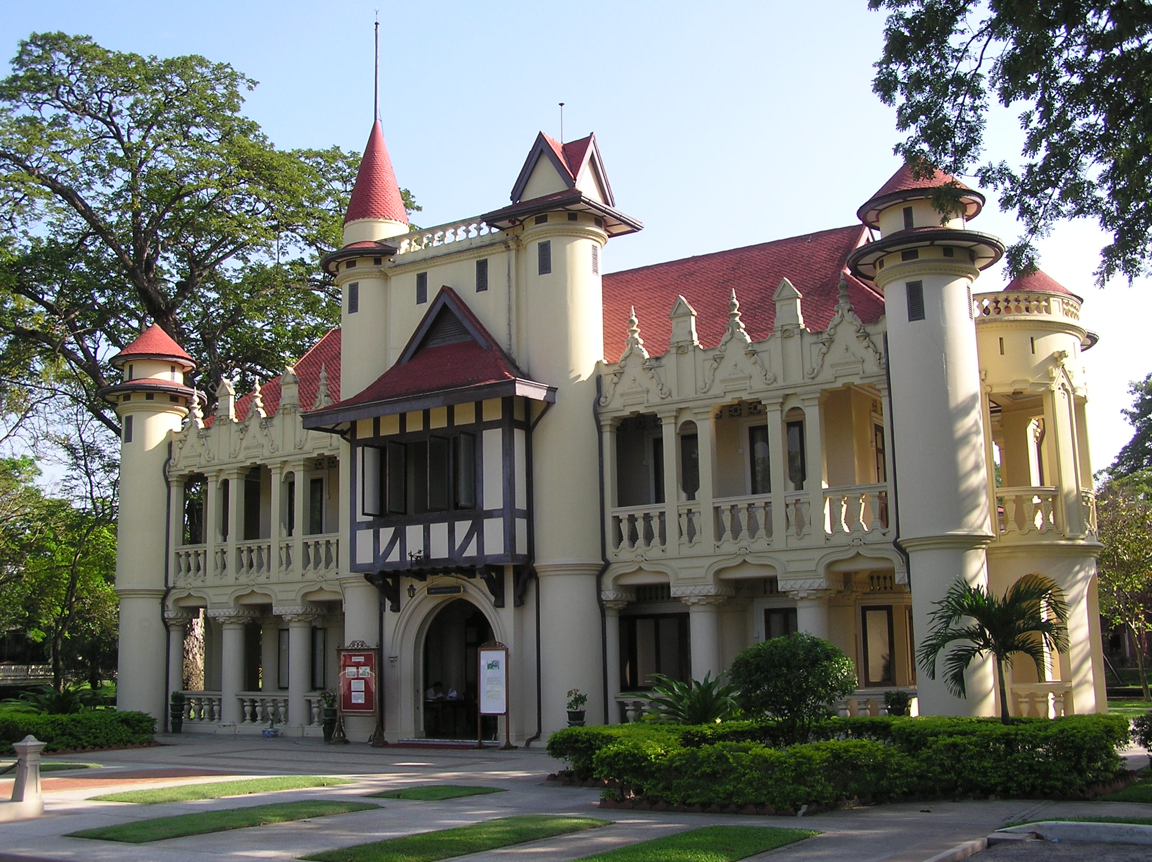 Chali Mongkhon At Residence, one of the residence in Sanam Chan Palace, Nakhon Pathom province พระตำหนักชาลีมงคลอาสน์ ใน พระราชวังสนามจันทร์